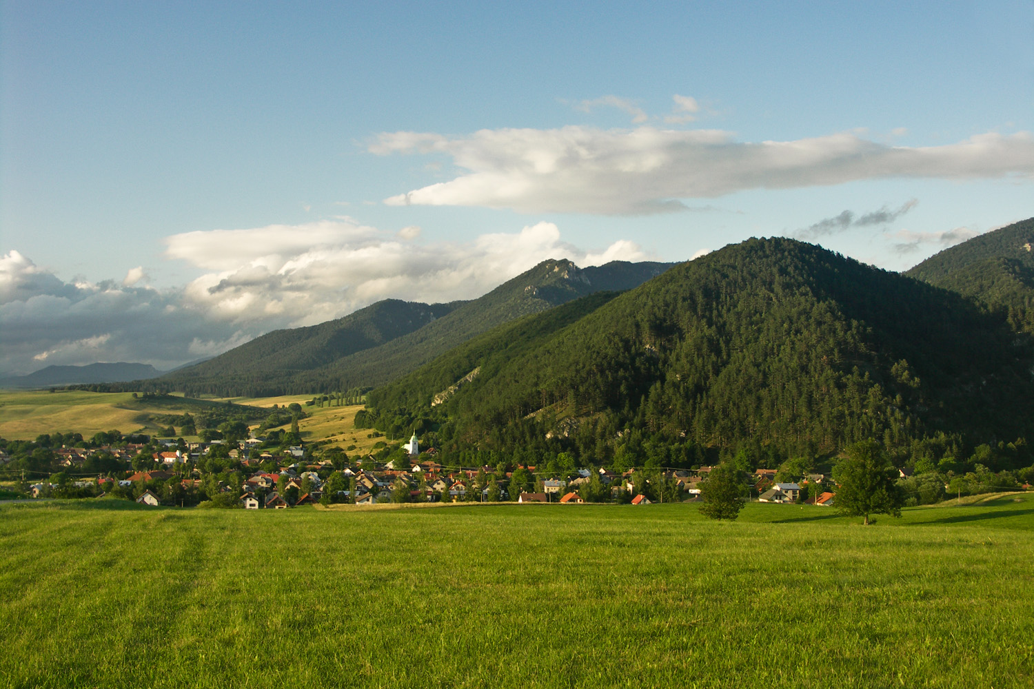 View of the Blatnica village, Slovakia